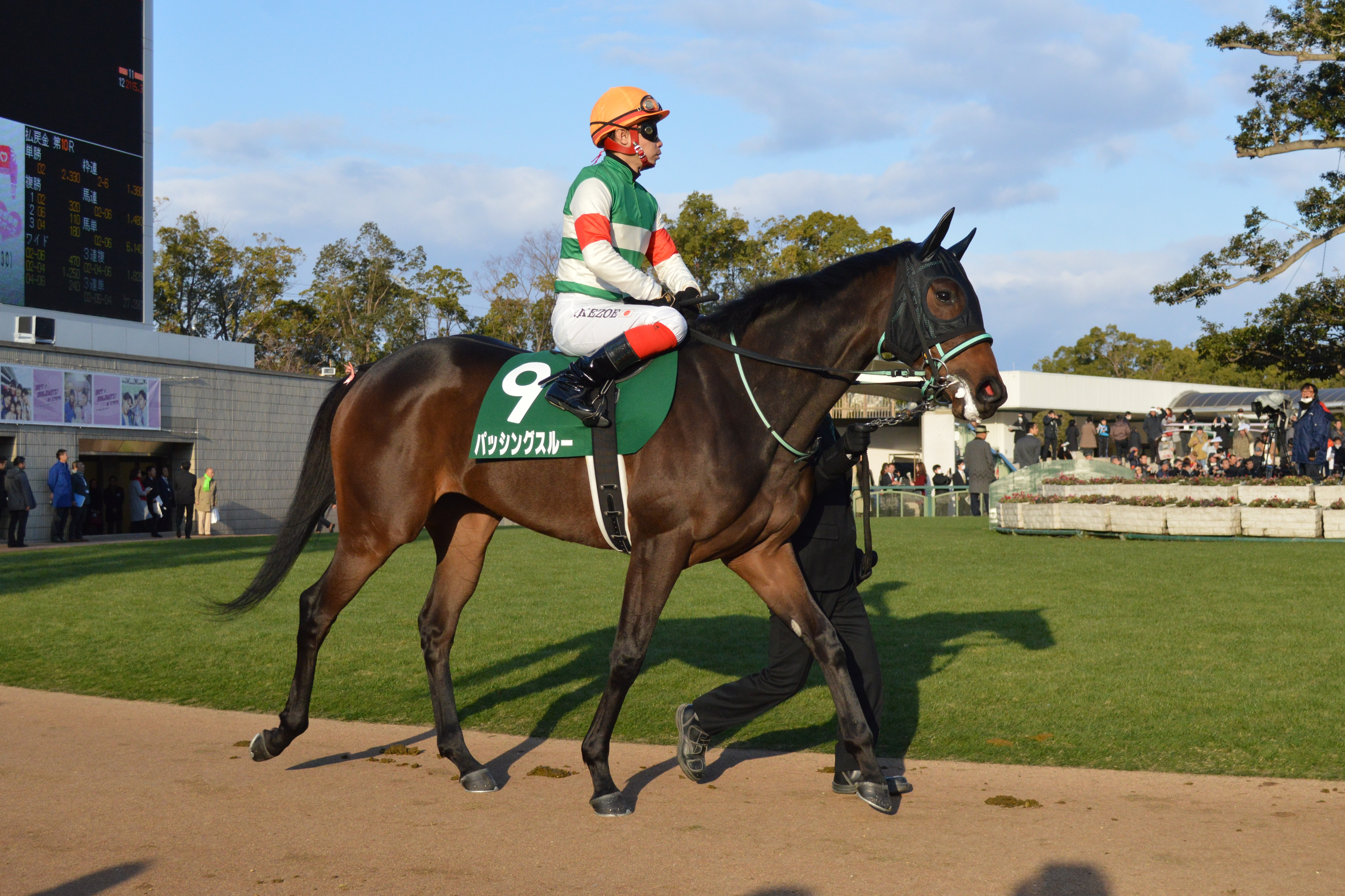 Japanese race horse Passing Through at Kyoto racecourse.